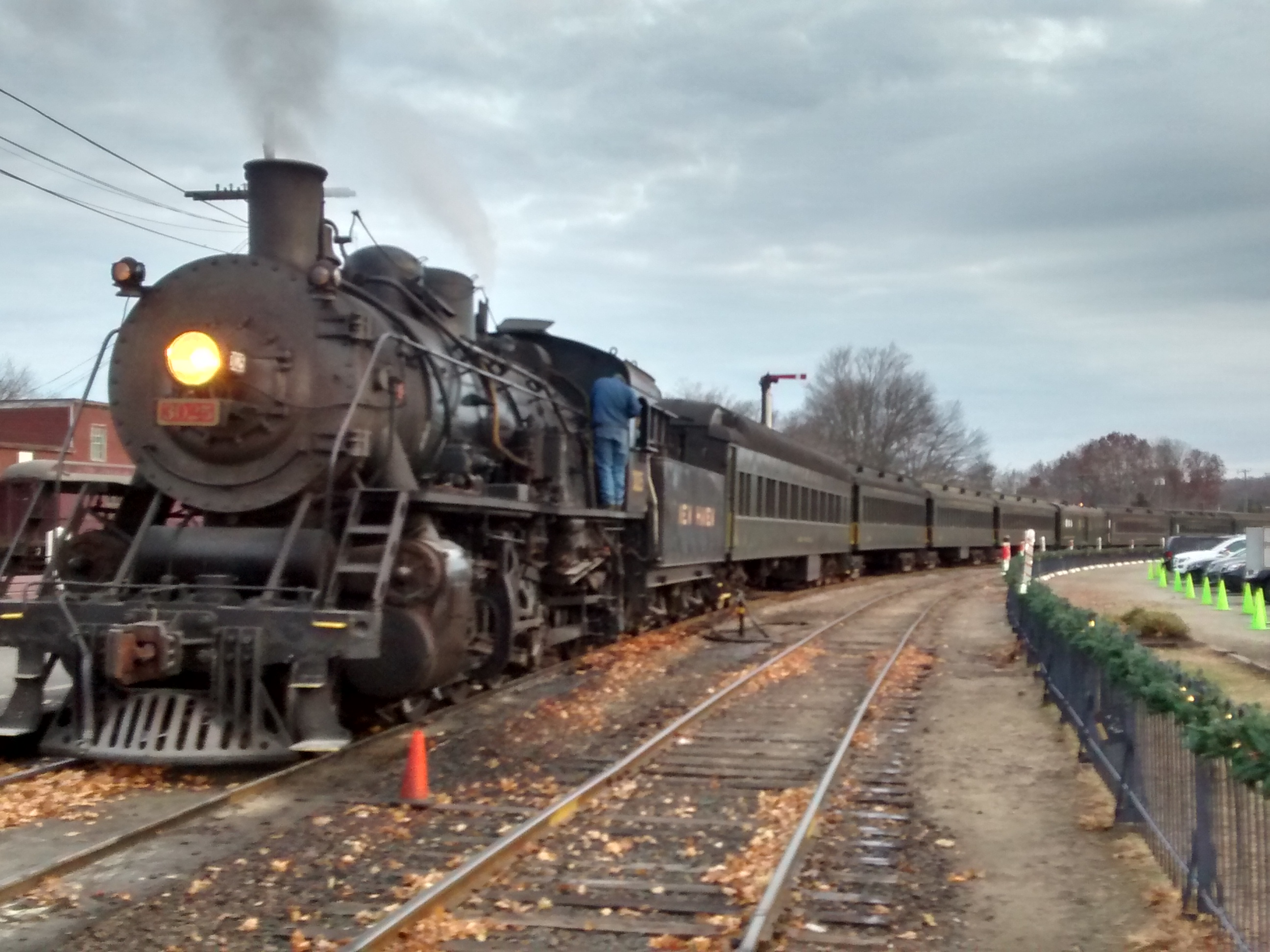 Mikado 2-8-2 (3025)